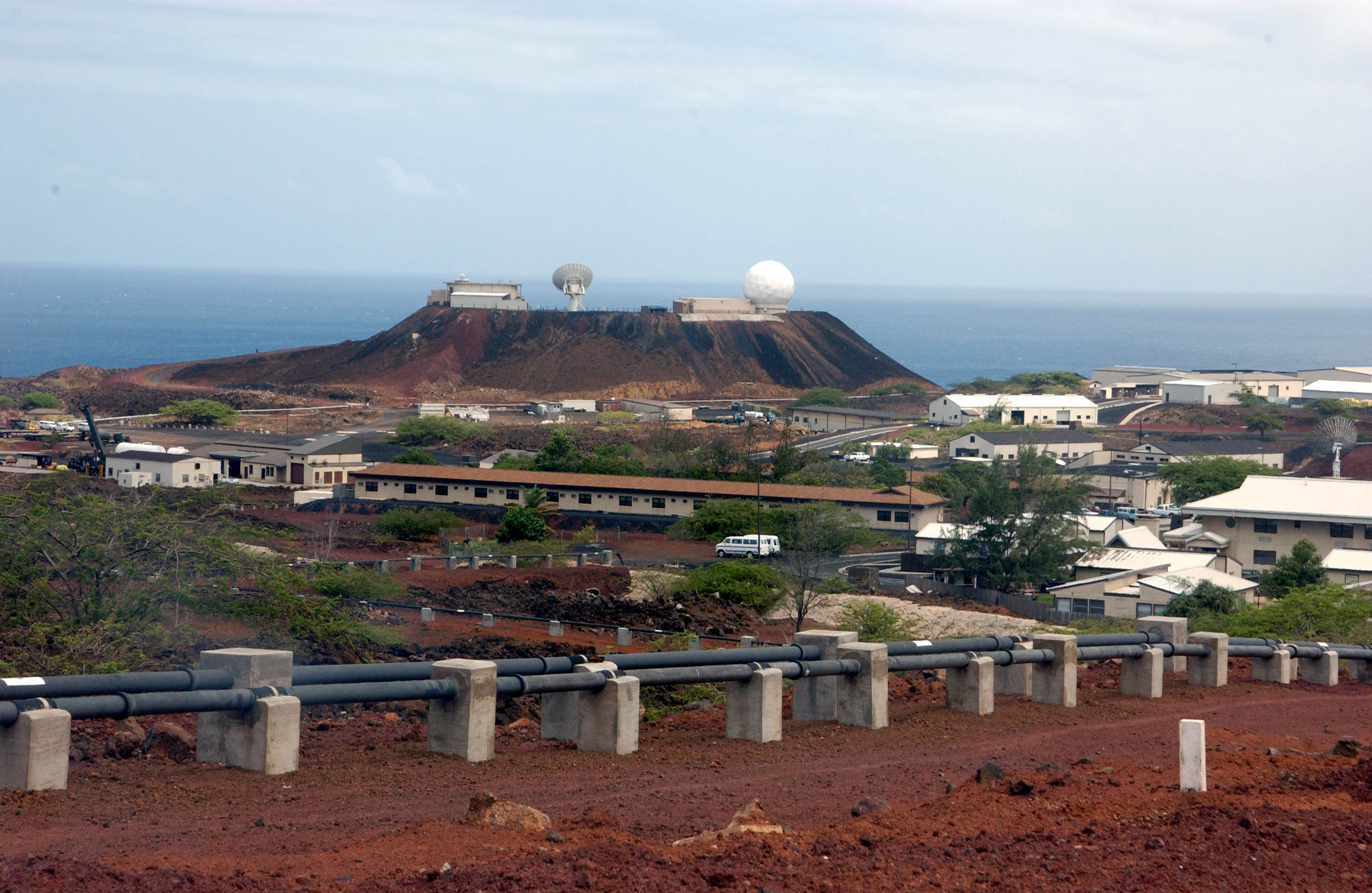 CAT HILL – SITE OF THE U.S. AIR FORCE FACILITY ON THE ISLAND AND LATER NASA MISSILE TRACKING STATION